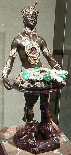 Balthasar Permoser (1651-1732): Moor with emerald plate, ca. 1724, Günes Gewölbe, Dresden, Germany.